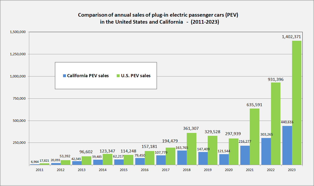 Annual sales of plug-in electric vehicles in the United States and California from December 2010 through December 2019. Data series taken from the California New Car Dealer Association (2015-2019,2014-2018, 2013-2015, and 2011-2012. US data from and for 2018 and 2019.